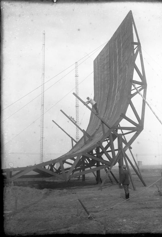 An early cylindrical parabolic antenna, Nauen radio station, Germany, 1931. The original German caption says roughly: A billboard for radio waves! These enormous billboards on the grounds of the large radio station in Nauen direct radio waves in a predetermined direction.